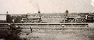 Trains